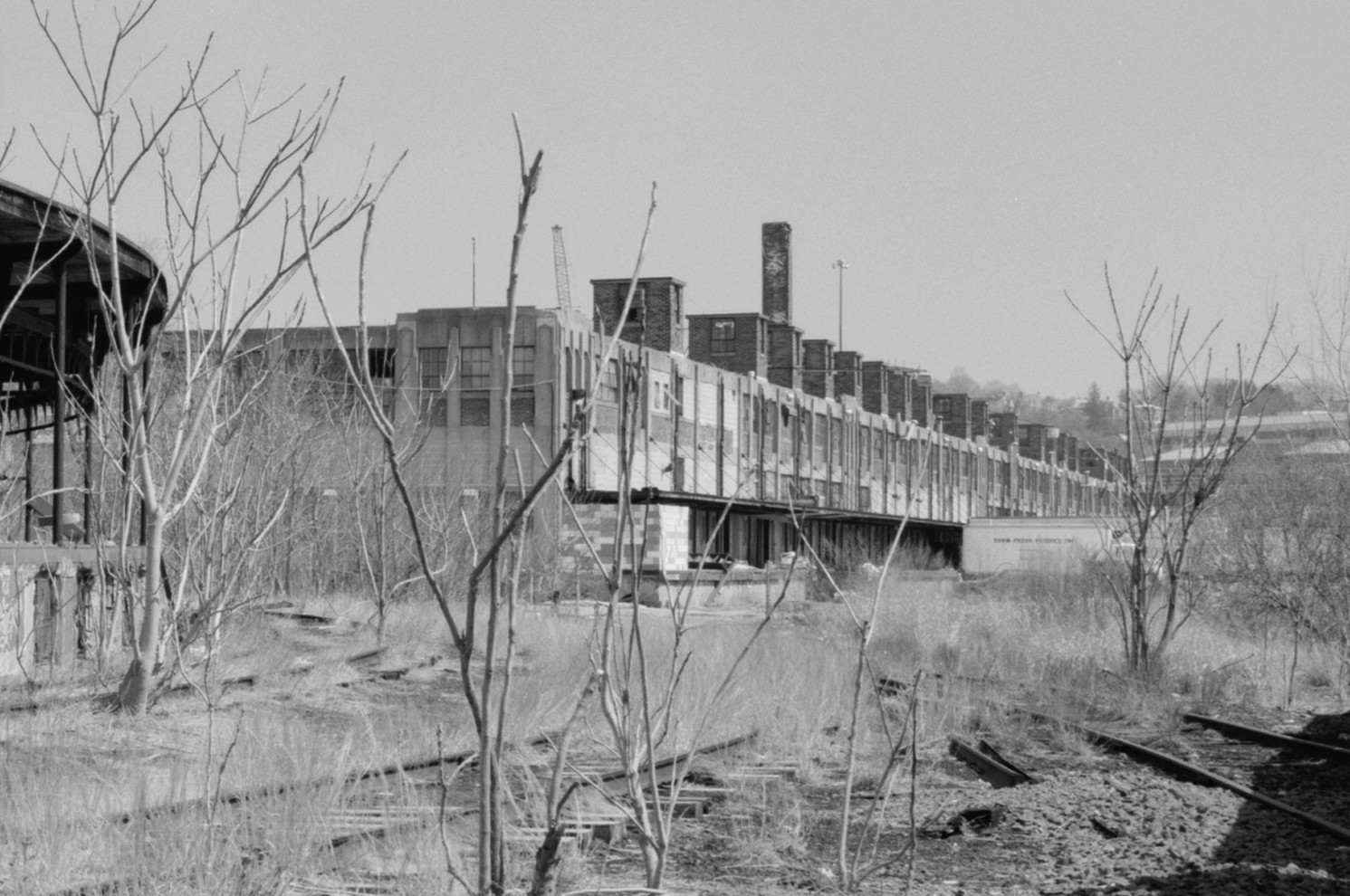 Providence Fruit and Produce Warehouse Company Building, Providence, Rhode Island. Demolished in the 2008.